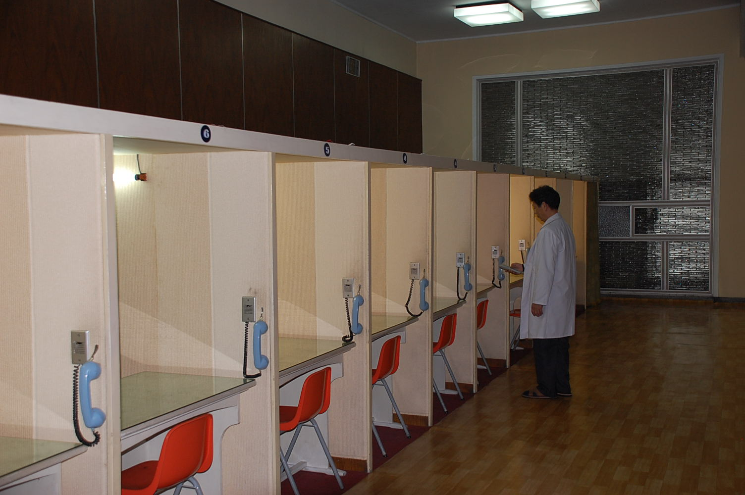 Trip to North Korea in June, 2008